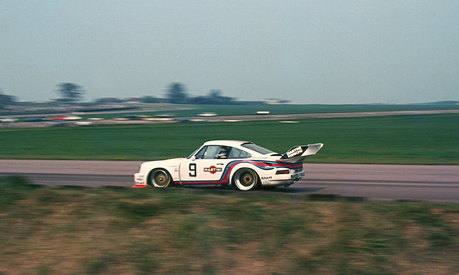 Martini Racing at The World Championship For Manufacturers 6 Hours Silverstone